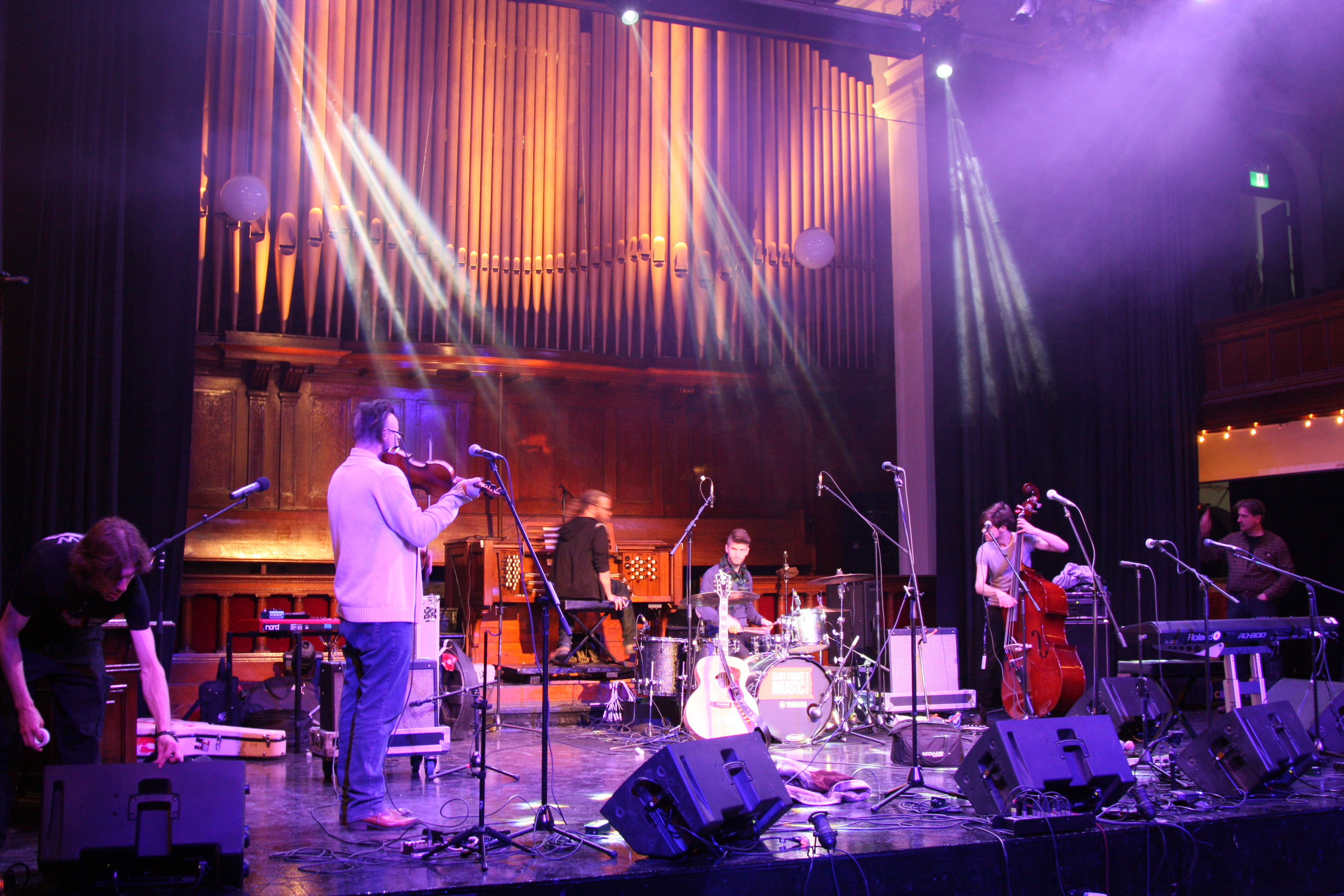 Soundcheck for East Coast Music Week: Folk Stage, featuring Ben Caplan & The Casual Smokers, Kim Harris, Quiet Parade, and Jordan Musycsyn. The show ran Friday, April 15, 9:00PM - 12:30PM at the Highland Arts Theatre, Sydney, Nova Scotia, Canada.